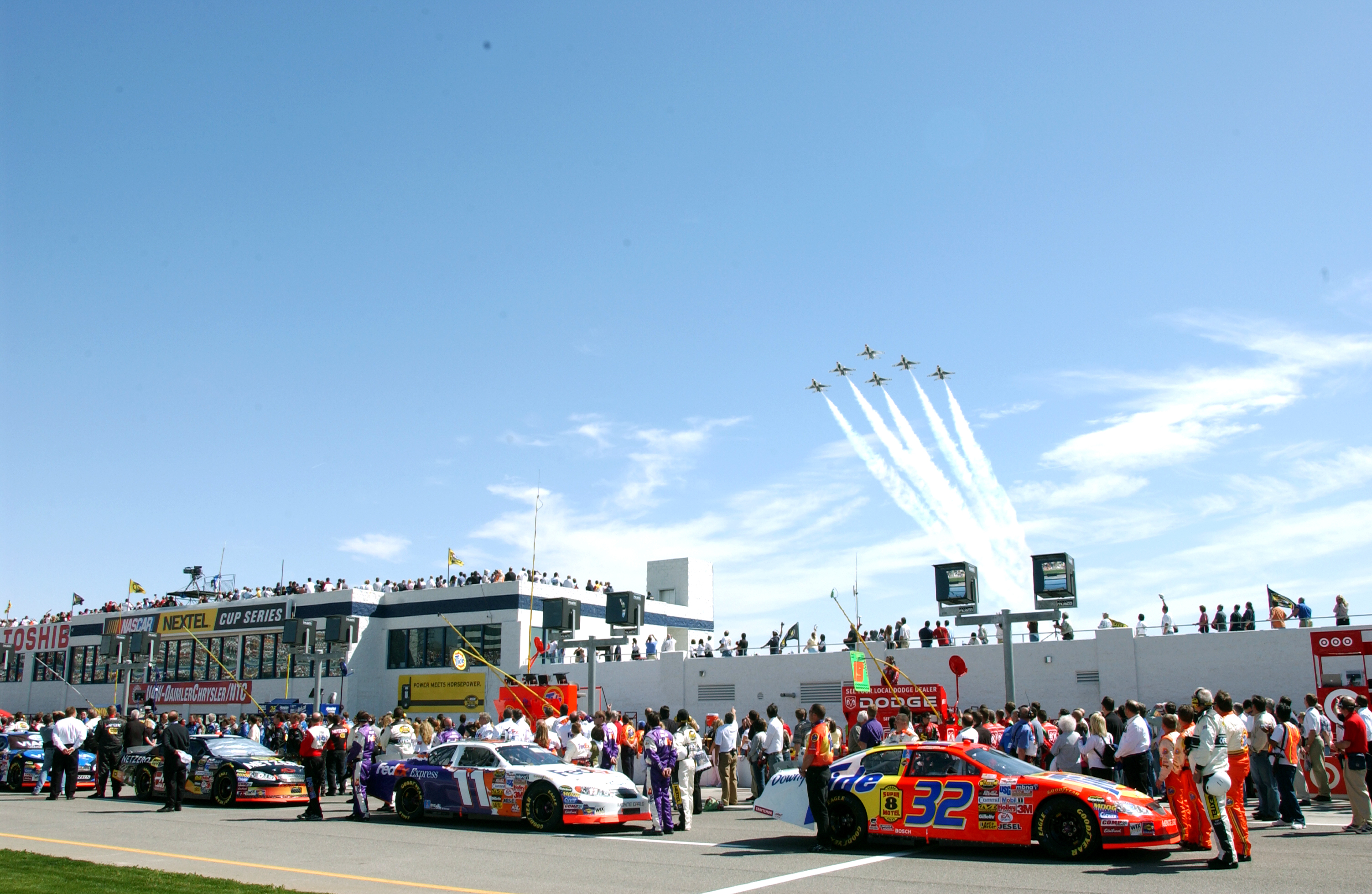 NASCAR drivers Jason Leffler #11 and Bobby Hamilton, Jr. #32 before the start of the 2005 NASCAR NEXTEL Cup race at Las Vegas. Bobby Hamilton, Jr. is the short man at the front of the #32 car.